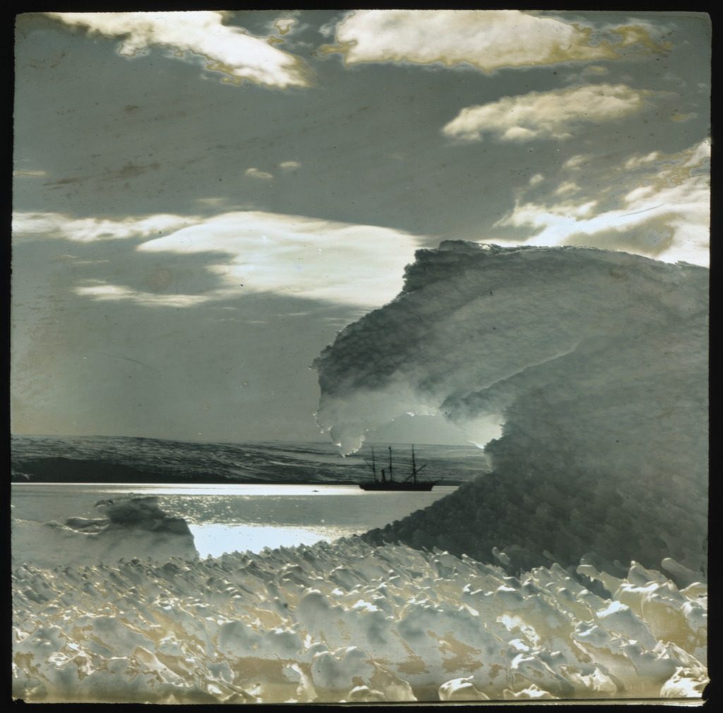 The Aurora lying at anchor, Commonwealth Bay [Australasian Antarctic Expedition, 1911-1914]. In the distance the ice slopes of the mainland are visible rising to a height of 2000 feet. In the foregraound is a striking formation originating by the freezing of spray dashed up by the hurricane wind, Adelie Land.